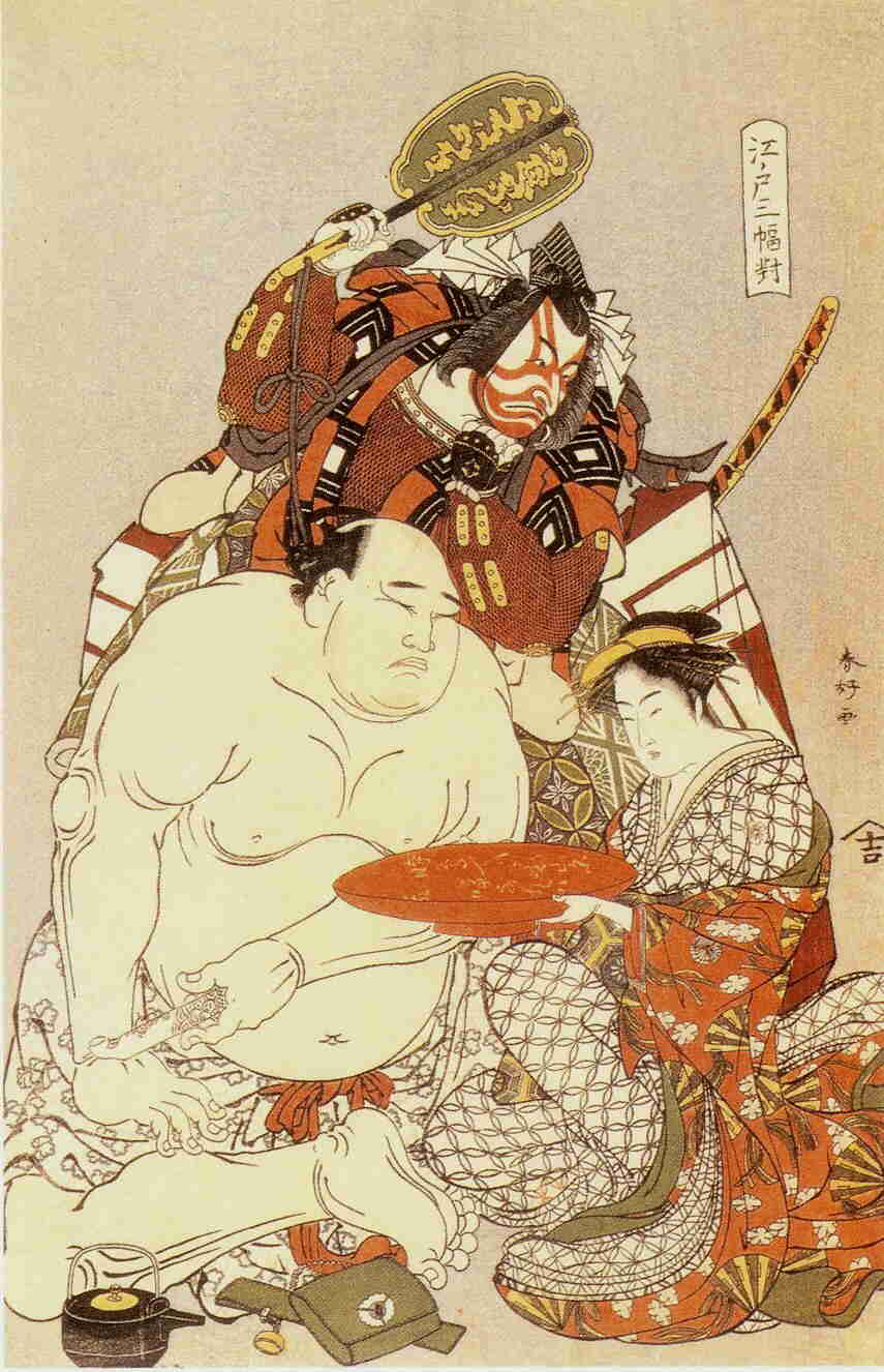 Three pleasures of Edo: Kabuki, Sumo, Yoshiwara